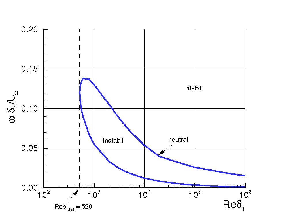 neutral curve of blasius boundary layer